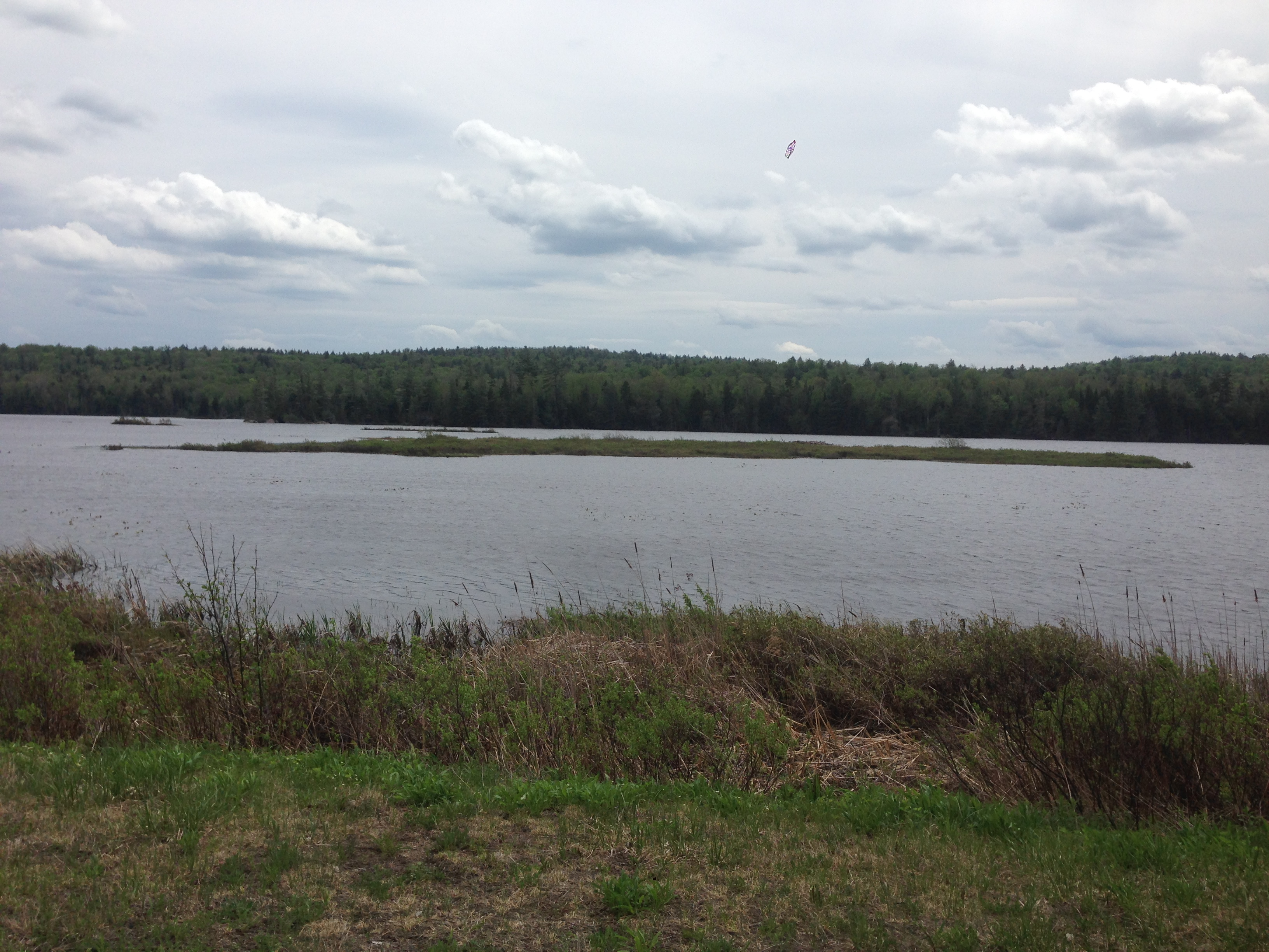 Lake Durant by the Hamlet of Blue Mountain Lake, New York. Taken May 2018